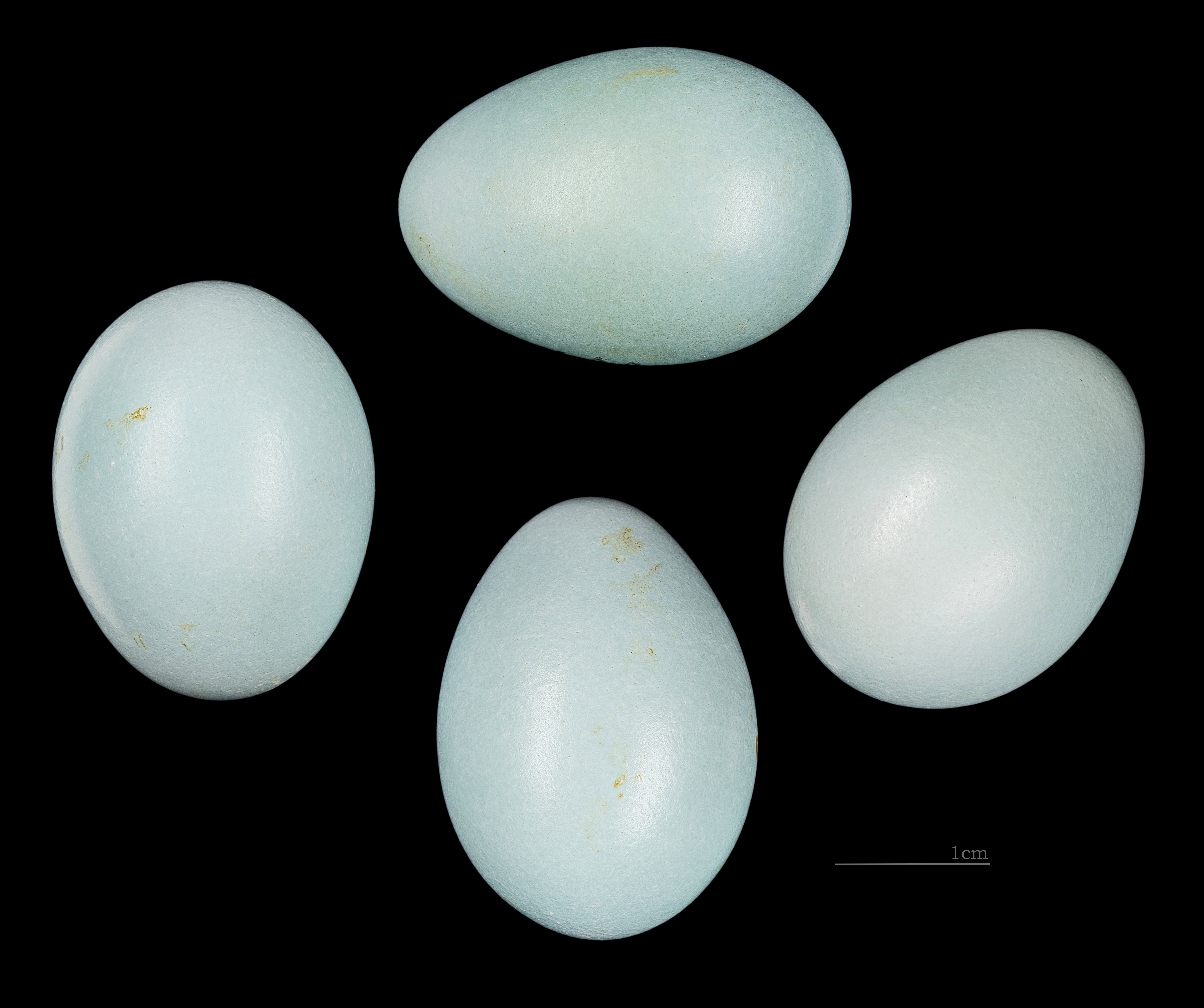 Egg of Masked Laughingthrush - Collection of Henri Heim de Balsac /Jacques Perrin de Brichambaut